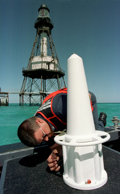 United States Coast Guardsman preparing a racon beacon for installation in the Florida Keys